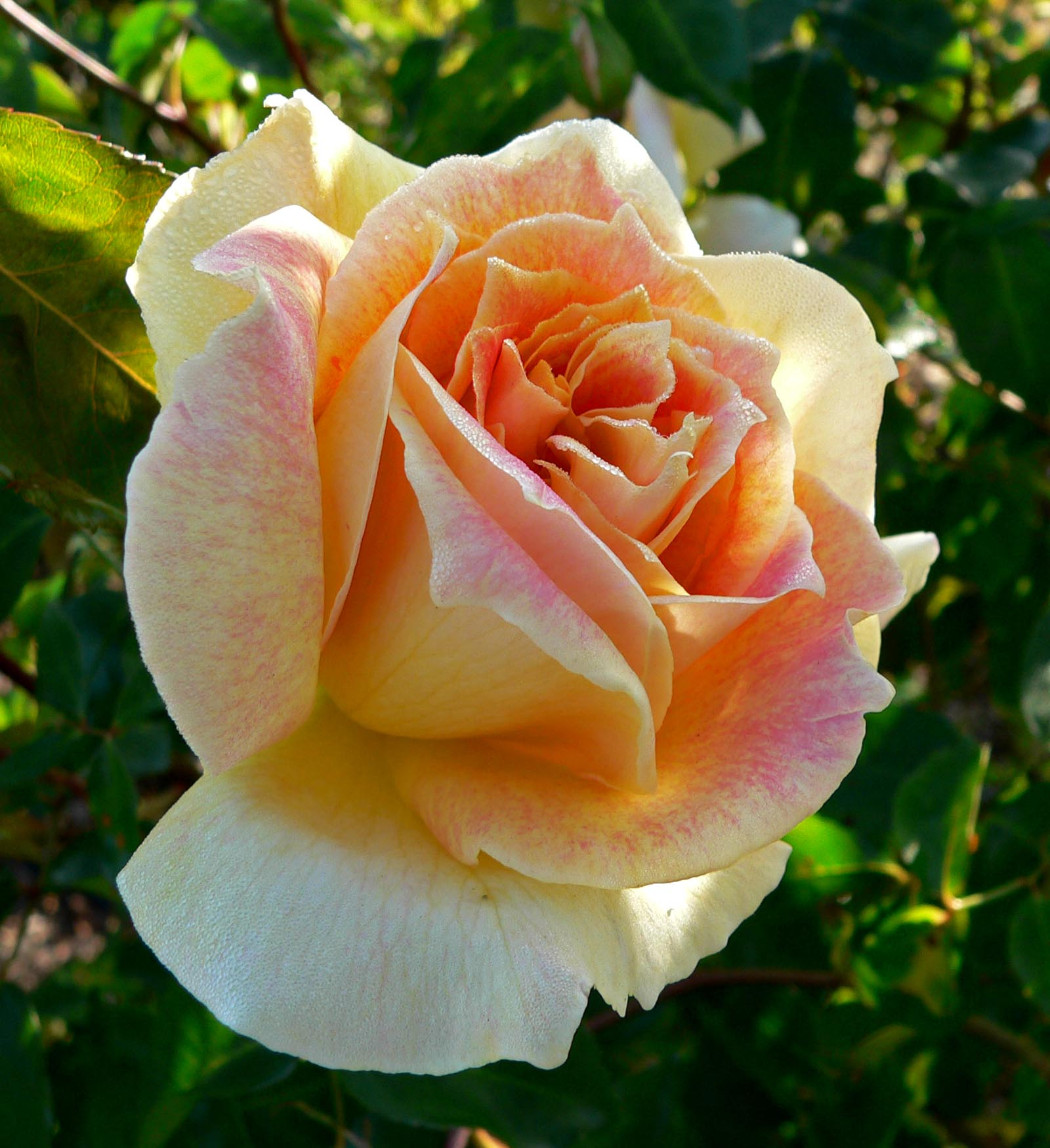 Photo of Rosa 'Helen Hayes' at the San Jose Heritage Rose Garden